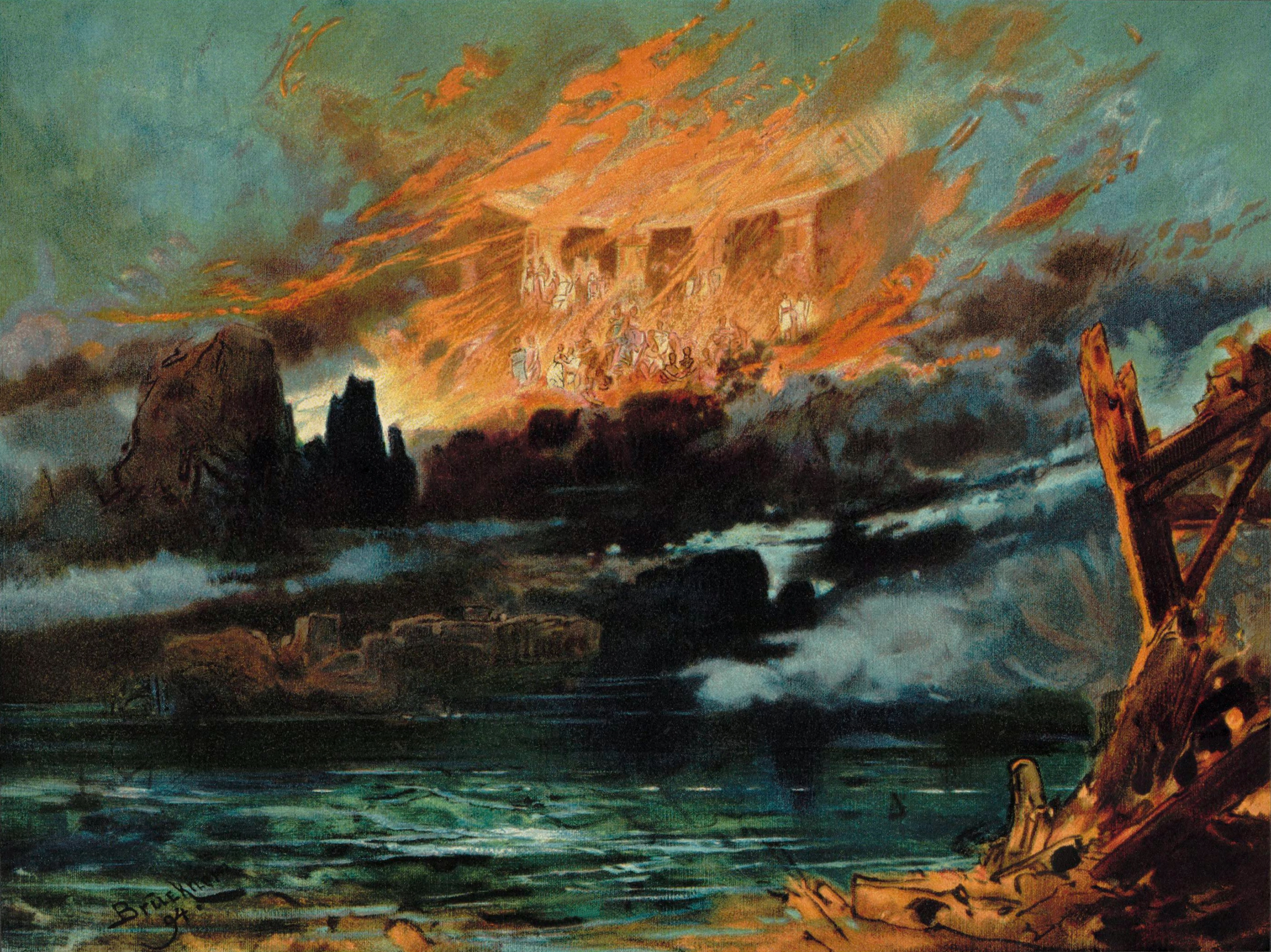 "Bayreuther Bühnenbilder. Der Ring der Nibelungen. Götterdämmerung, III. Aufzug Schlussbild" - Reproduction of the set design by Max Brückner of the final scene from Richard Wagner's Götterdämmerung, showing Valhalla on fire. The German text makes it clear this is the "Genuine and only authorized color reproduction of the painted original by Royal Councillor Prof. Max Brückner in Coburg for the Bayreuth Festival Theatre."